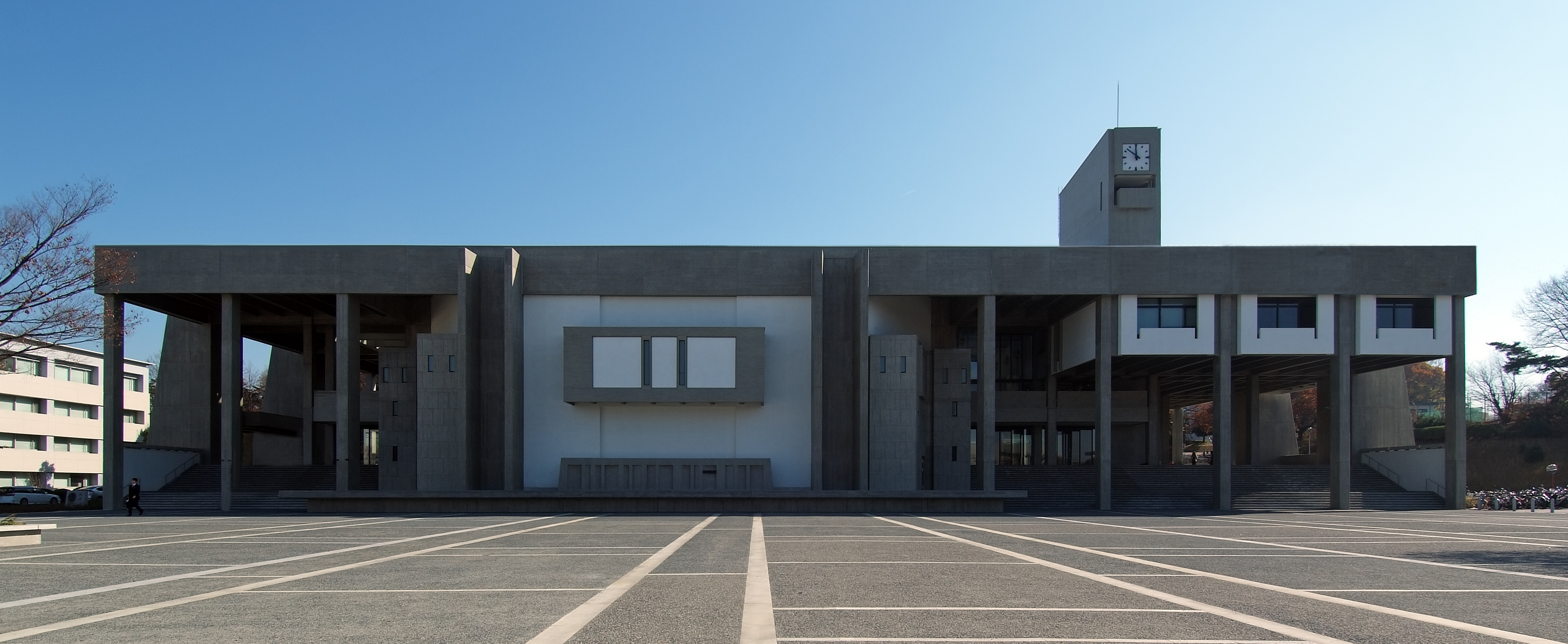 Toyota Auditorium of Nagoya University,Chikusa-ku Nagoya Japan, design by Fumihiko Maki in 1960.